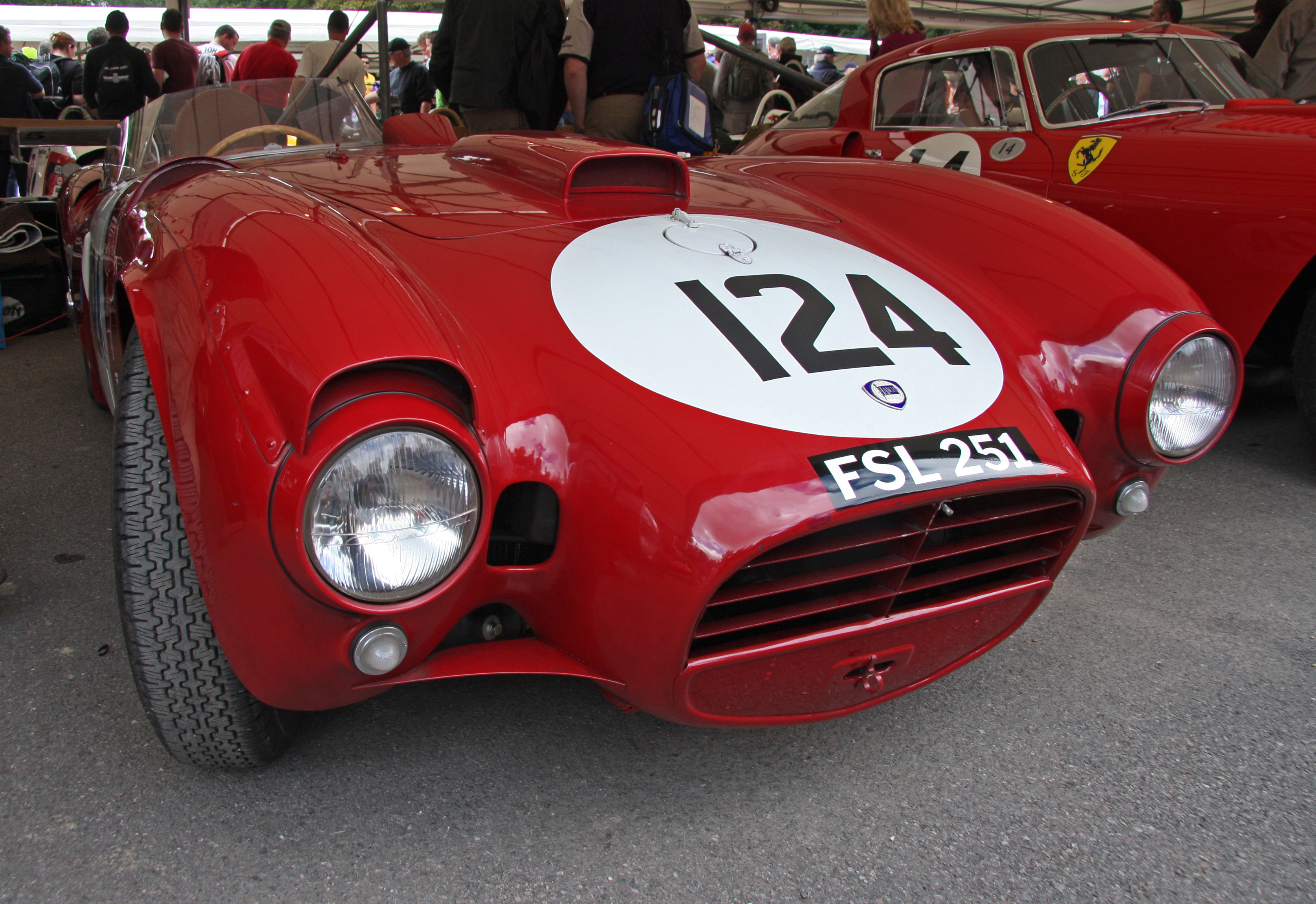 Reconstruction of a Lancia D24 - 1954 type, 3.7 litre V6.